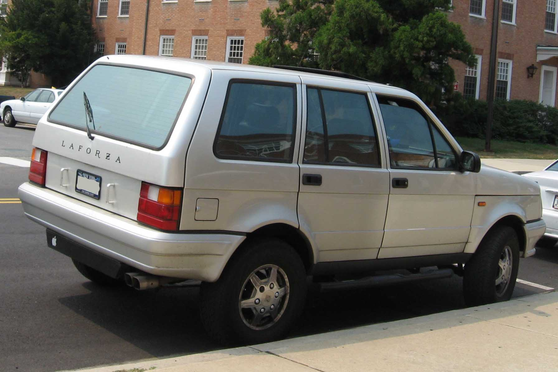 La Forza photographed in USA.